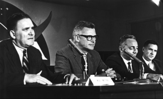 The lunar orbit rendezvous decision is announced at a NASA press conference in July, 1962. Joe Shea is at the far right. NASA announced selection of the lunar-orbit-rendezvous landing technique at an 11 July 1962 press conference. At the conference table, left to right above, are NASA Administrator James E. Webb, Associate Administrator Robert C. Seamans, Jr., Office of Manned Space Flight Director D. Brainerd Holmes, and OMSF Director of Systems Joseph F. Shea.